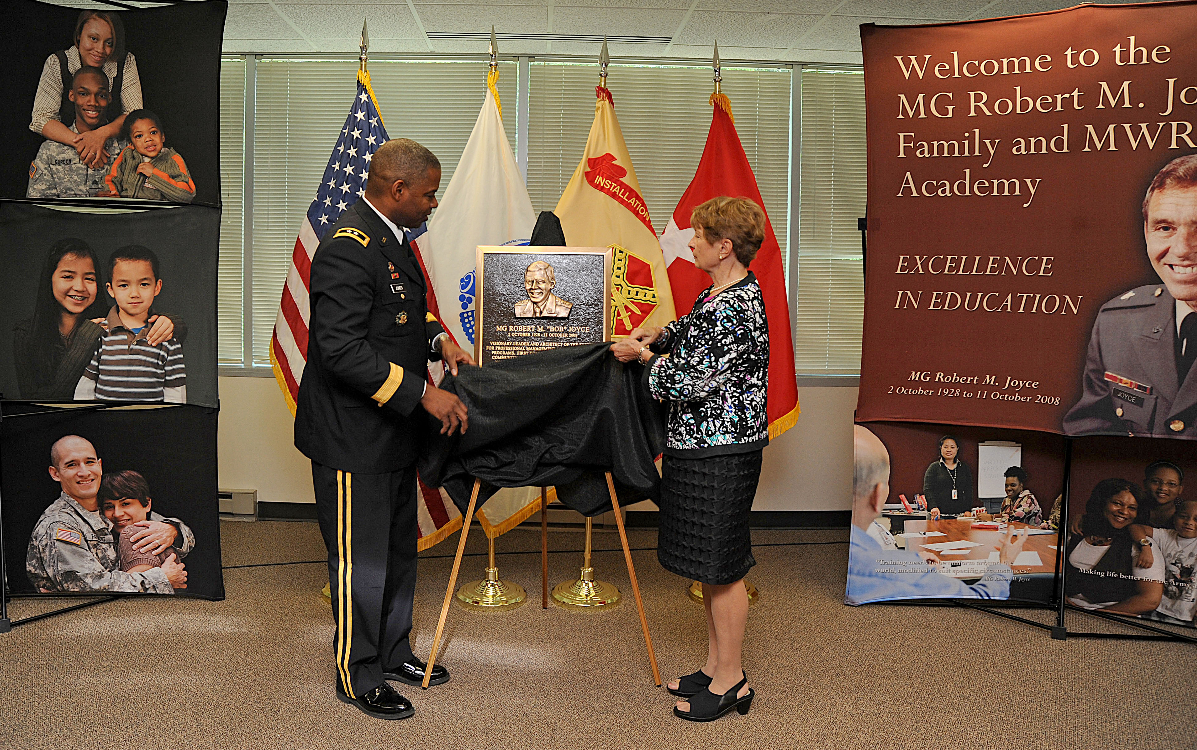 Maj. Gen. Reuben Jones and Virginia "Ginny" Joyce unveil the plaque commemorating the newly named Maj. Gen. Robert M. Joyce Family and MWR Academy at a ceremony May 27, 2009. Photo by Rob McIlvaine, FMWRC Public Affairs (US Army).